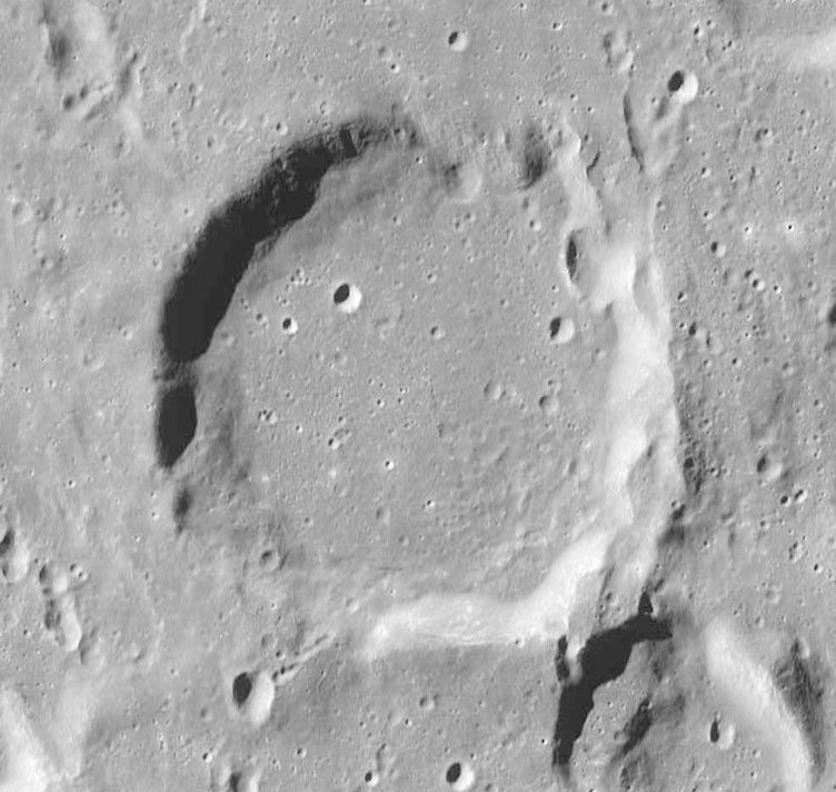 Crater Yakovkin(detail of LRO - WAC global moon mosaic; Mercator projection)